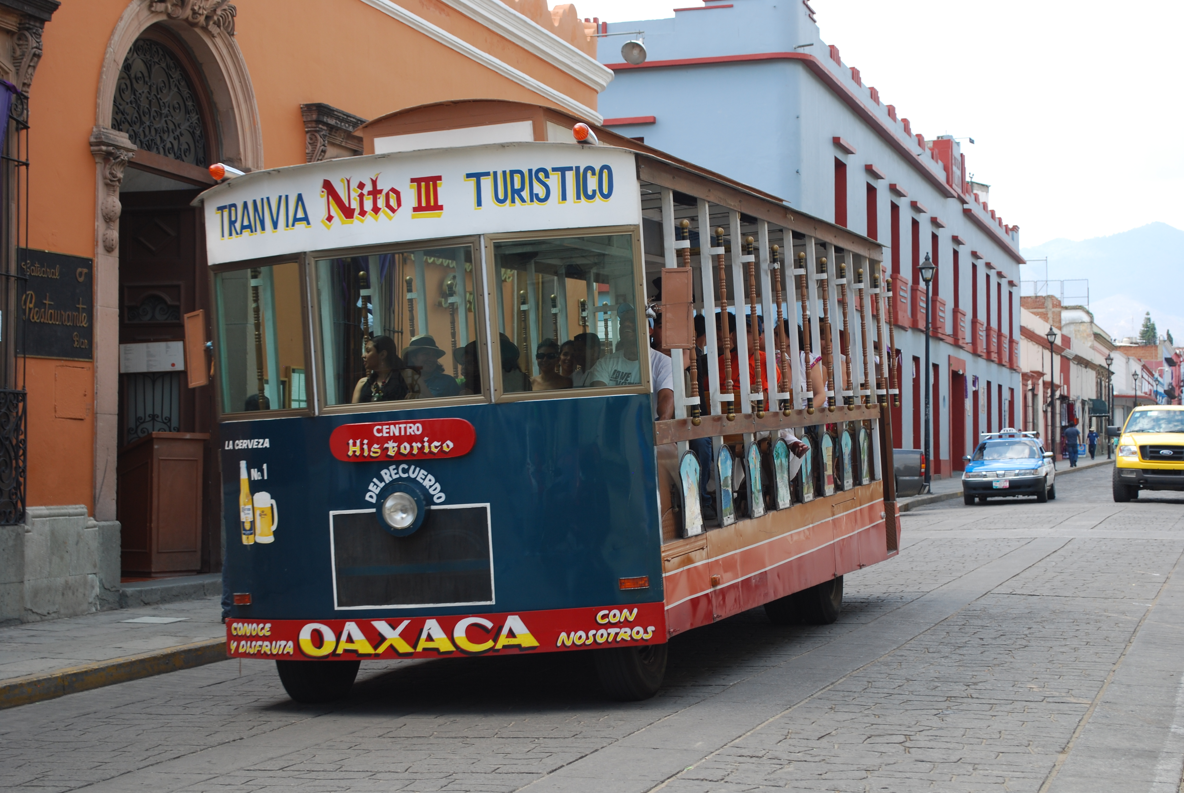 Tour trolley in the city of Oaxaca, Mexico